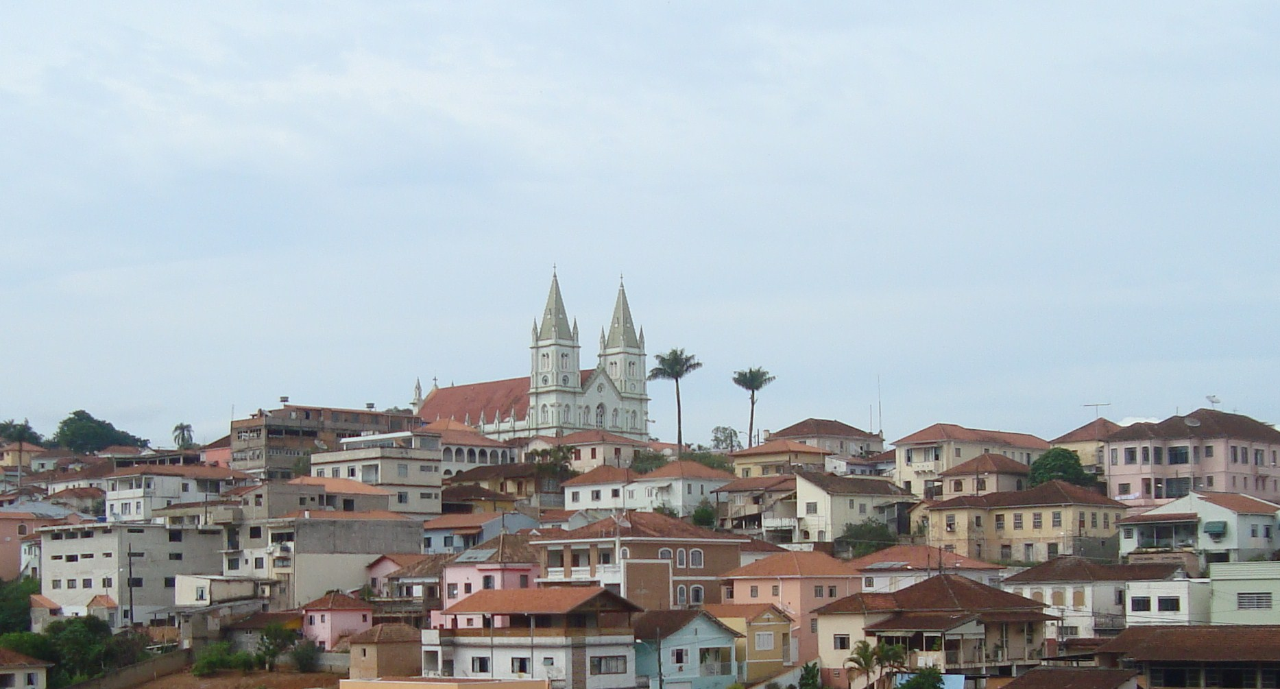 Downtown Brasópolis in Minas Gerais, Brazil